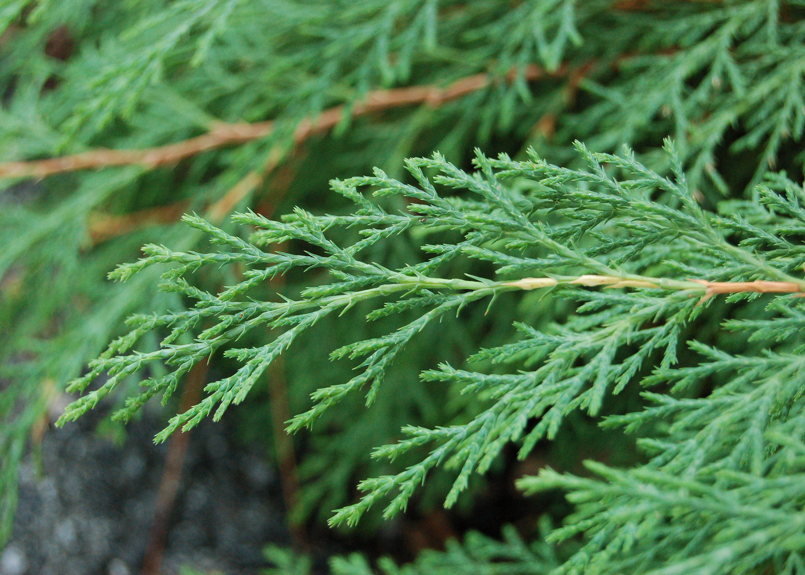 Photograph of the leaves of the Microbiota (Microbiota decussata). Photo taken at the Tyler Arboretum where it was identified.